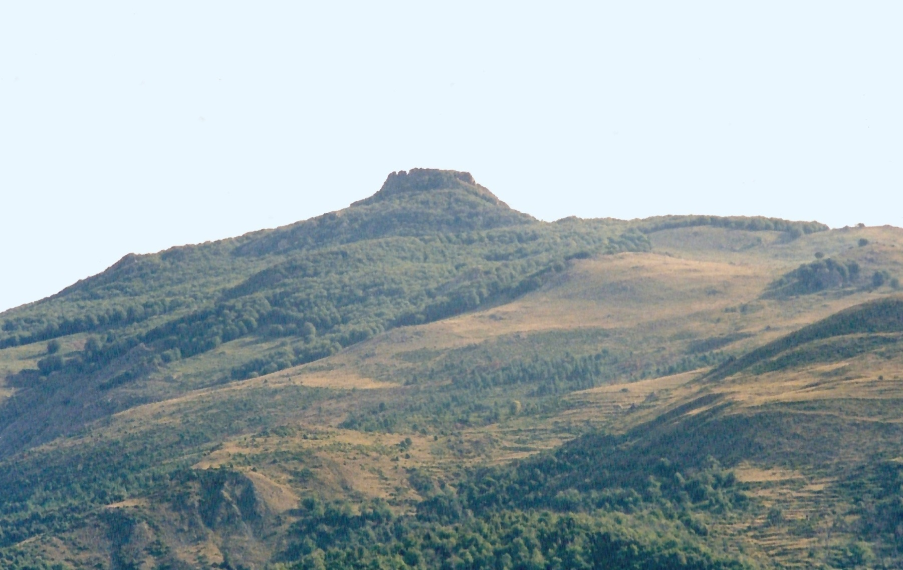 Mount San Petrone, Castagniccia, Corsica Corsu: A tavula di San Petrone, vista da Carticasi